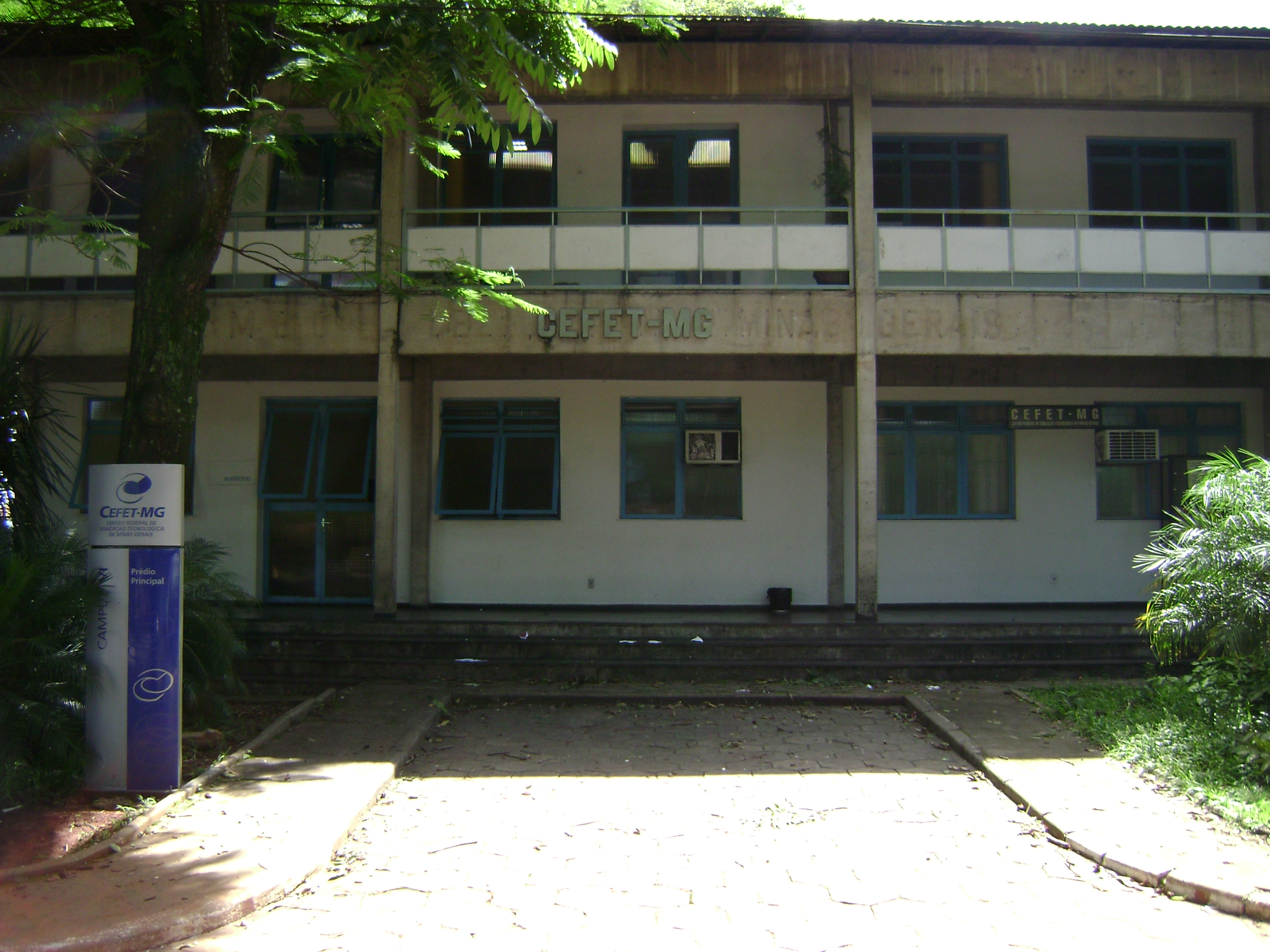 Entrance of campus VI of Centro Federal de Educação Tecnológica de Minas Gerais, Belo Horizonte, Brazil.